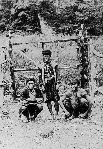 Aiyu-Sen(Taiwanese Aboriginal Boundary)